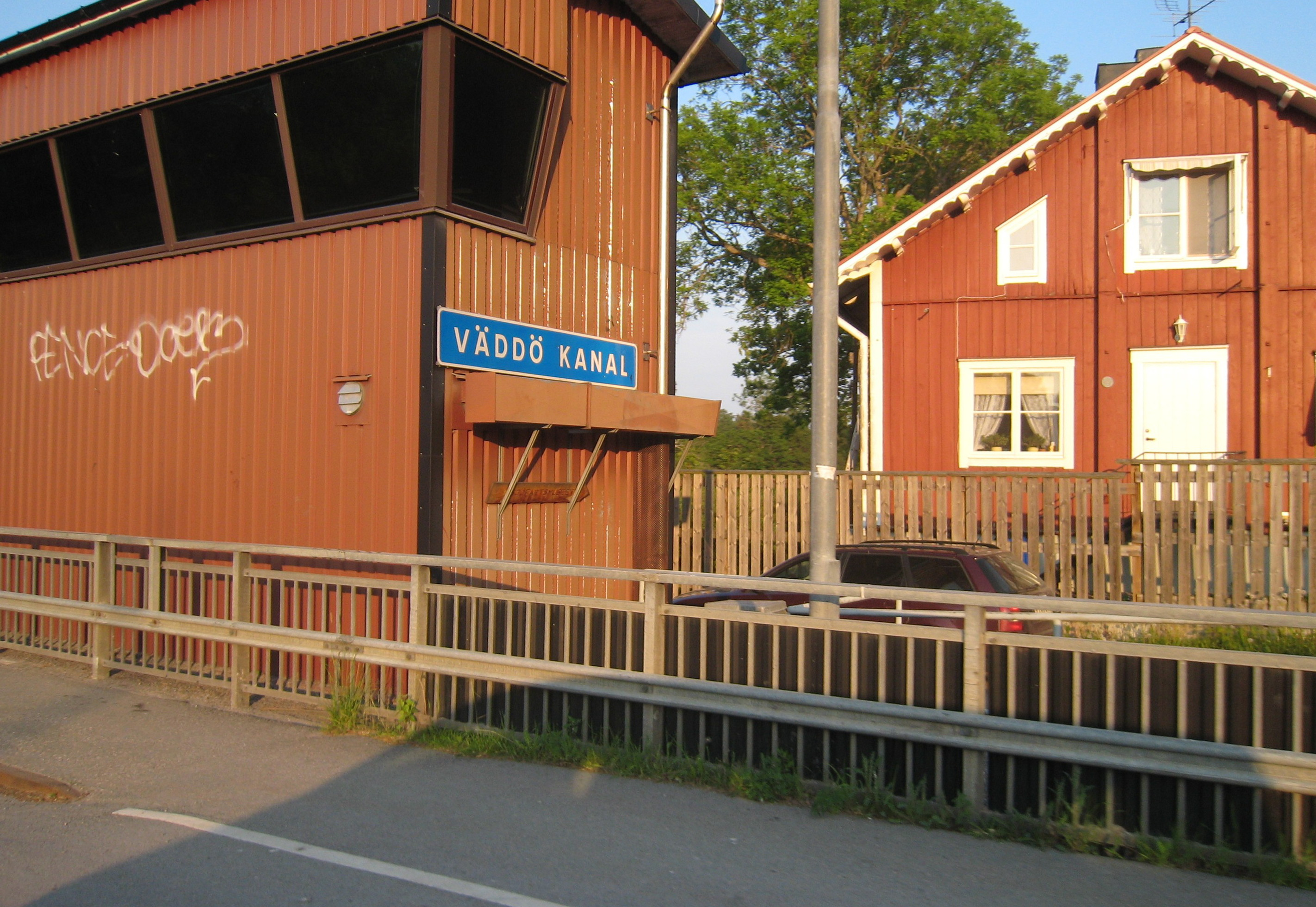 Wheelhouse in village Älmsta at the canal Väddö kanal